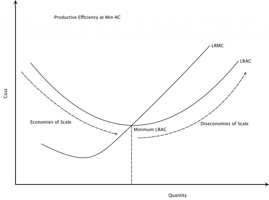 Diagram depicting economies and diseconomies of scale. A firm can grow or shrink in size, in the long run, i.e. in the diagram, can move up and down the Long Run Average Cost Curve. The Long Run Average Cost (LRAC) curve plots the average cost of producing the lowest cost method. The Long Run Marginal Cost (LRMC) is the change in total cost attributable to a change in the output of one unit after the plant size has been adjusted to produce that rate of output at minimum LRAC. As a result, the Long Run Marginal Cost (LRMC) is the change in the total of cost of adding one more unit when the long run costs are at a minimum.